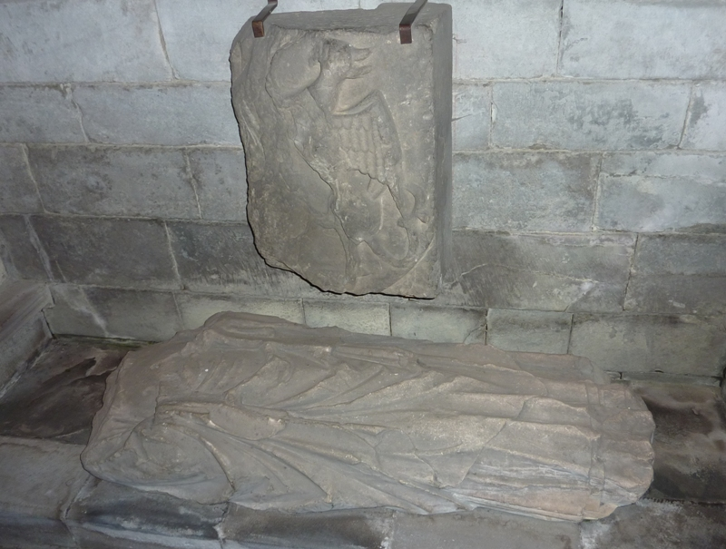 Dunkeld Cathedral, Dunkeld, Perth and Kinross, Scotland - effigy of bishop Sinclair